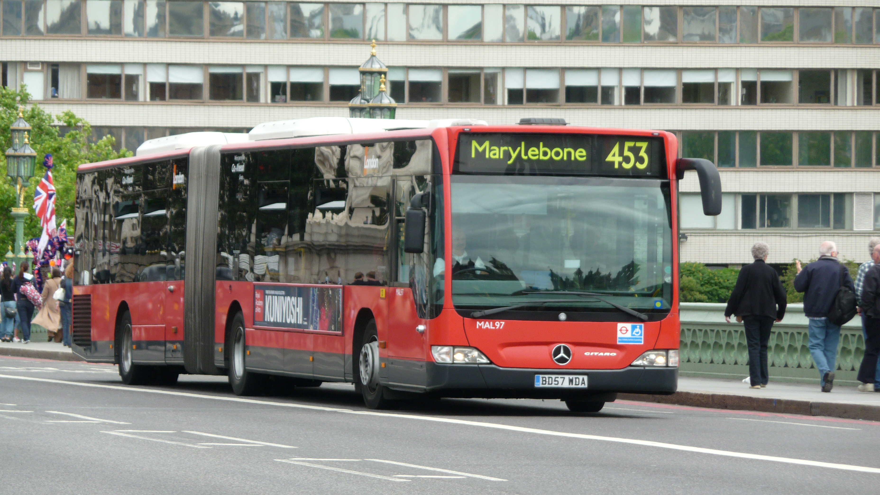 London General MAL97 (BD57 WDA), a Mercedes-Benz Citaro G, on Westminster Bridge.